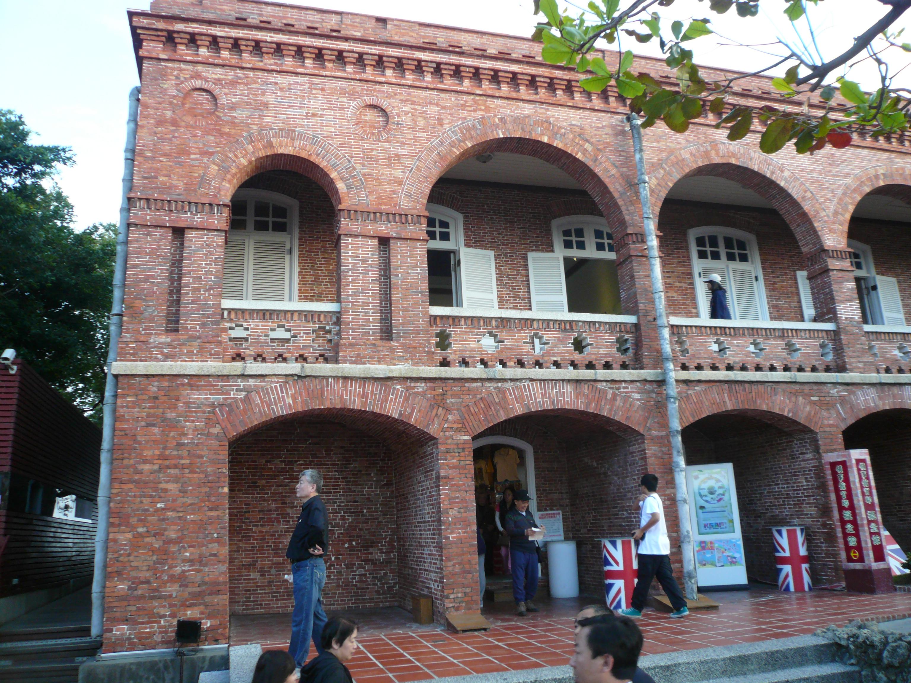 former British consulate at Sizihwan Bay, Kaohsiung, Taiwan